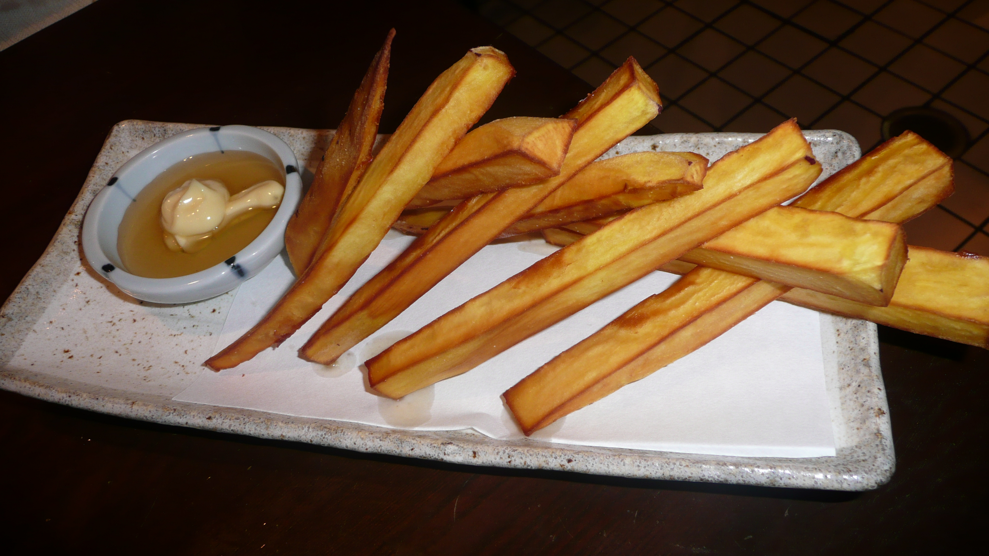 Japanese sweet potato with honey and mayonnaise, Restaurant in Tokyo (Shinagawa)